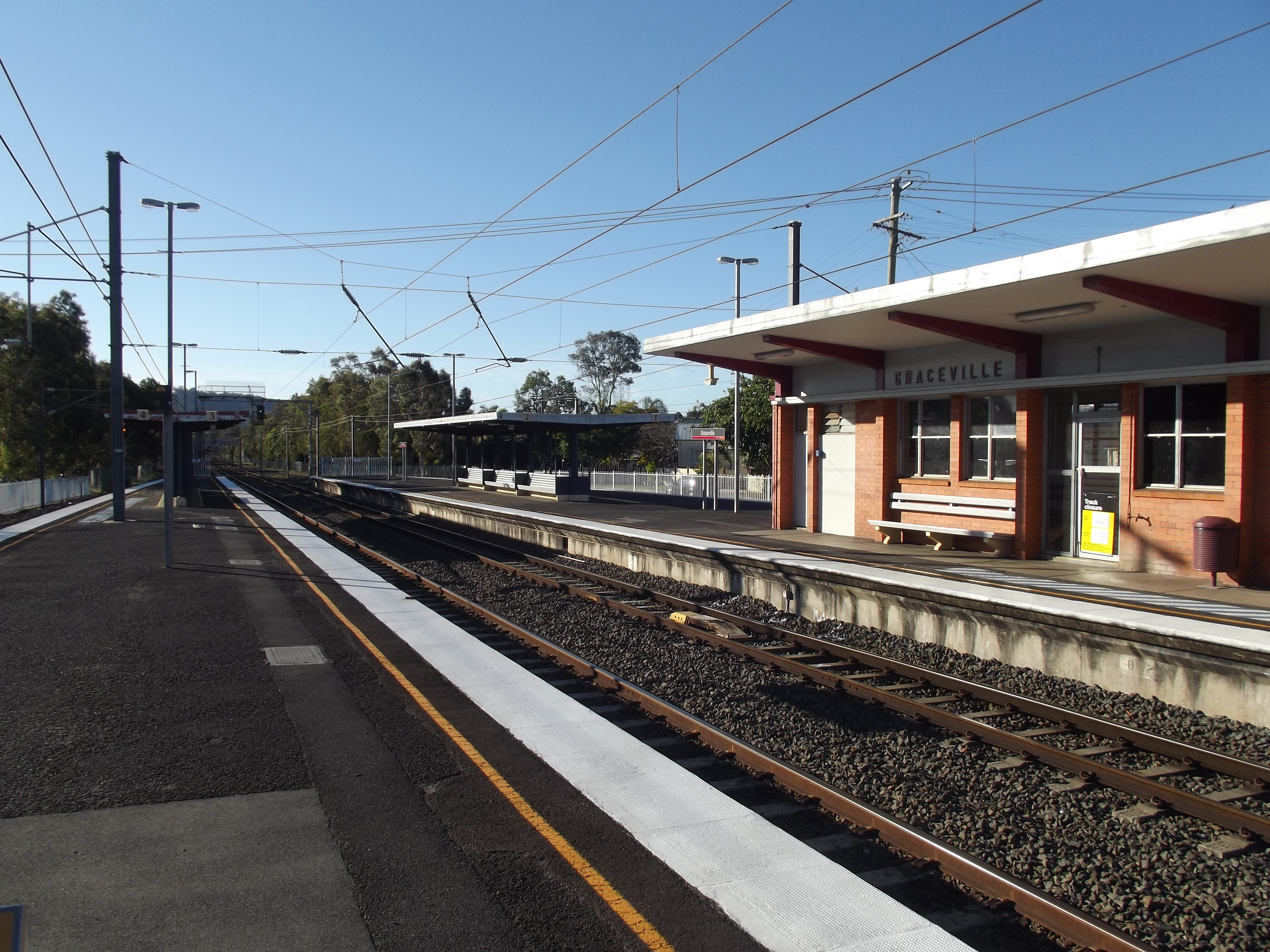 Graceville station, on the Richlands/Ipswich line.